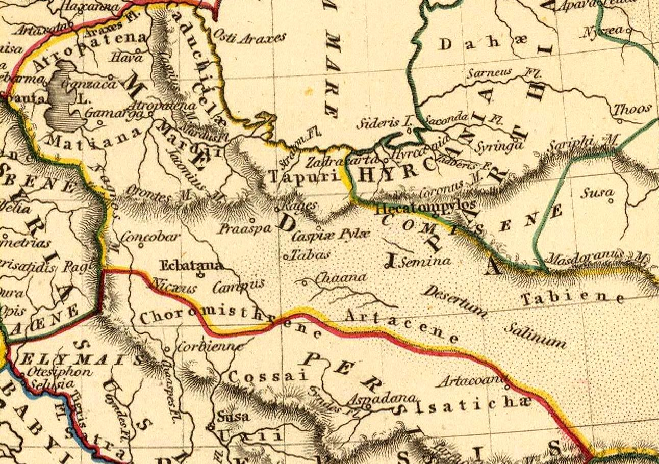 Persis, Parthia, Armenia, etc. Fenner Sc., Paternoster Row. (London, Joseph Thomas, 1835)